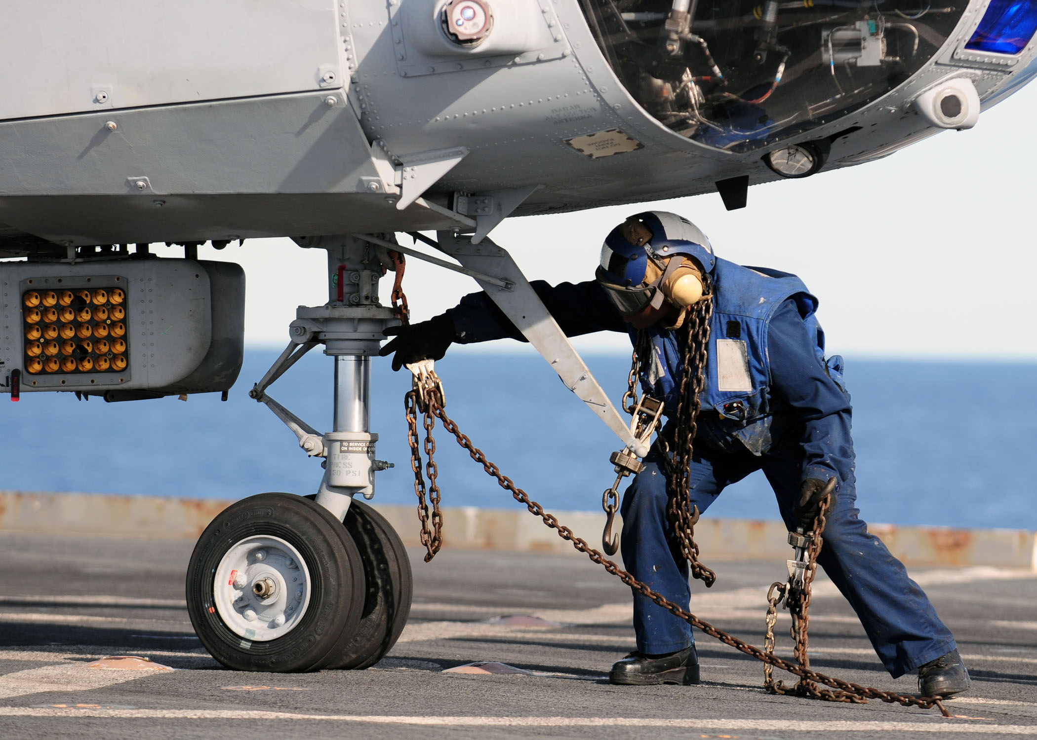 PACIFIC OCEAN (Feb. 25, 2011) Boatswain's Mate 3rd Class Lakeiha Henderson, from New York, removes a tie-down chain from the nose wheel of a CH-46E Sea Knight helicopter assigned to the Evil Eyes of Marine Medium Helicopter Squadron (HMM) 163 aboard the amphibious dock landing ship USS Comstock (LSD 45). Comstock is underway in the Pacific Ocean on a scheduled deployment as part of the Boxer Amphibious Ready Group. (U.S. Navy photo by Mass Communication Specialist 2nd Class Joseph M. Buliavac/Released)